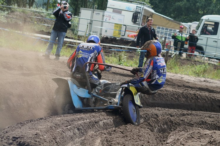 Possibly Eric Schrijver and Ramon van Mil in the 2006 sidecarcross worldchampionship.